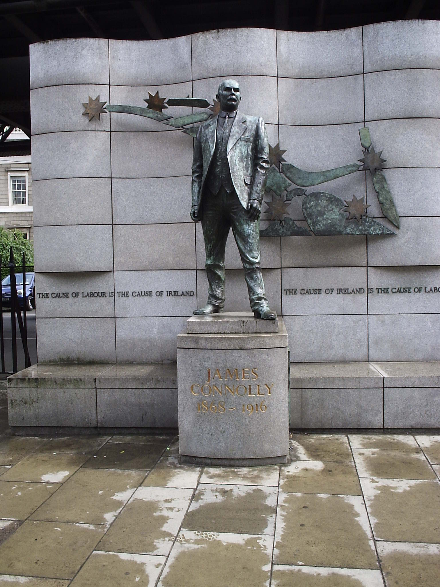 Description : Statue of James Connolly in Dublin city center Date : 08/2006 Author: Sebb